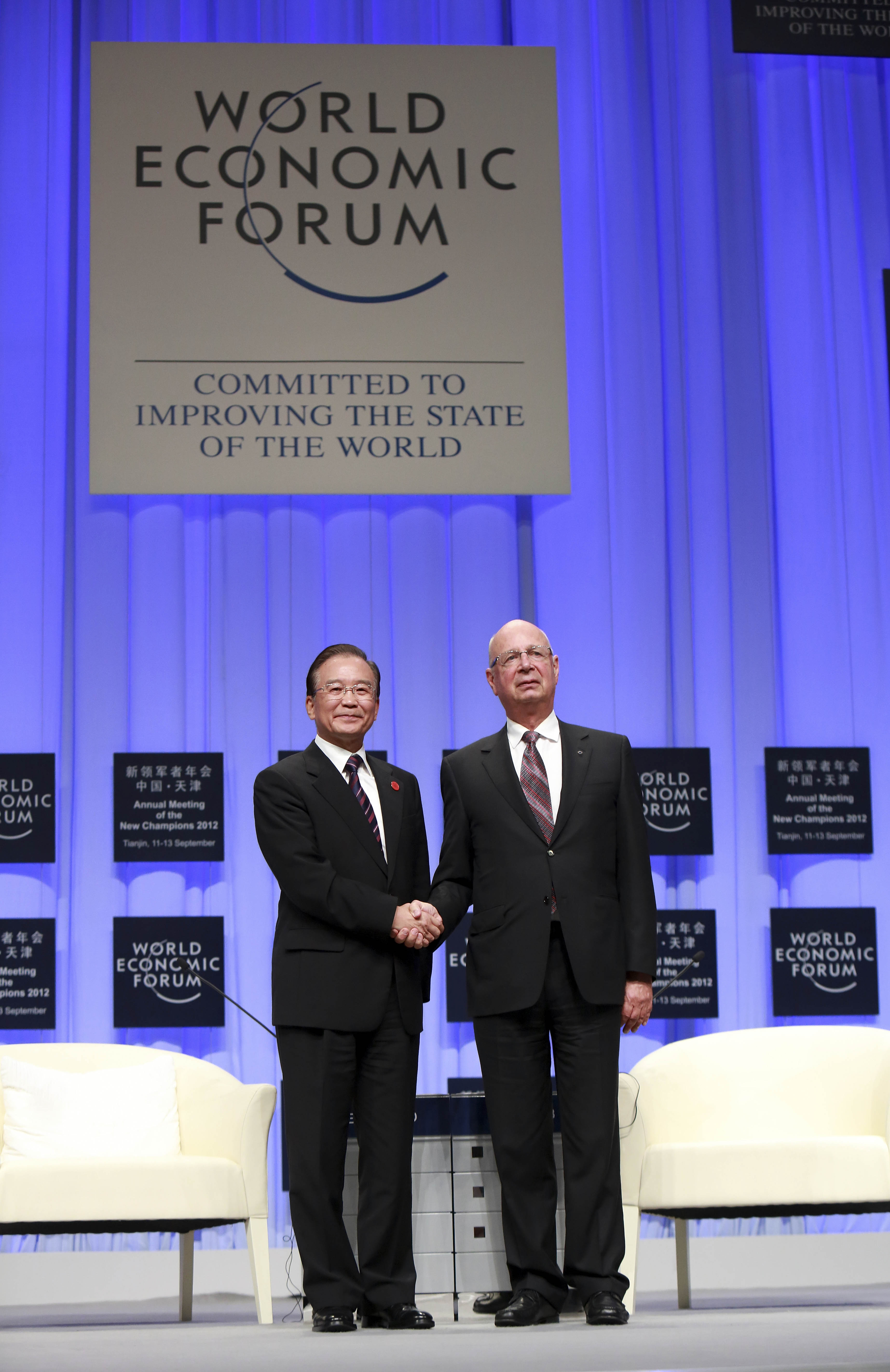 Premier Wen Jiabao with Professor Klaus Schwab at the Annual Meeting of the New Champions in Tianjin, China.